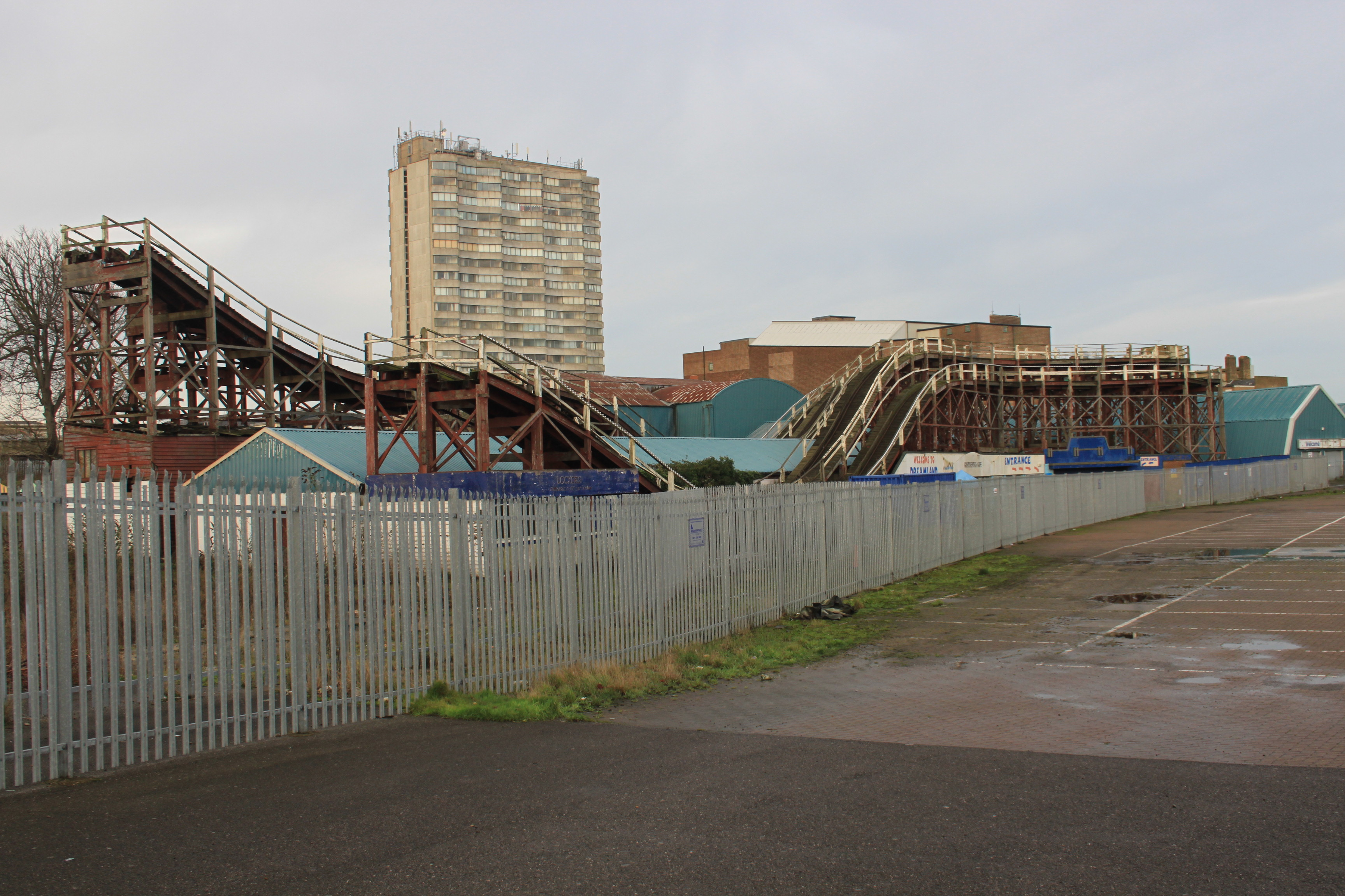 The remians of the Scenic Railway, Dreamland, Margate in January 2013